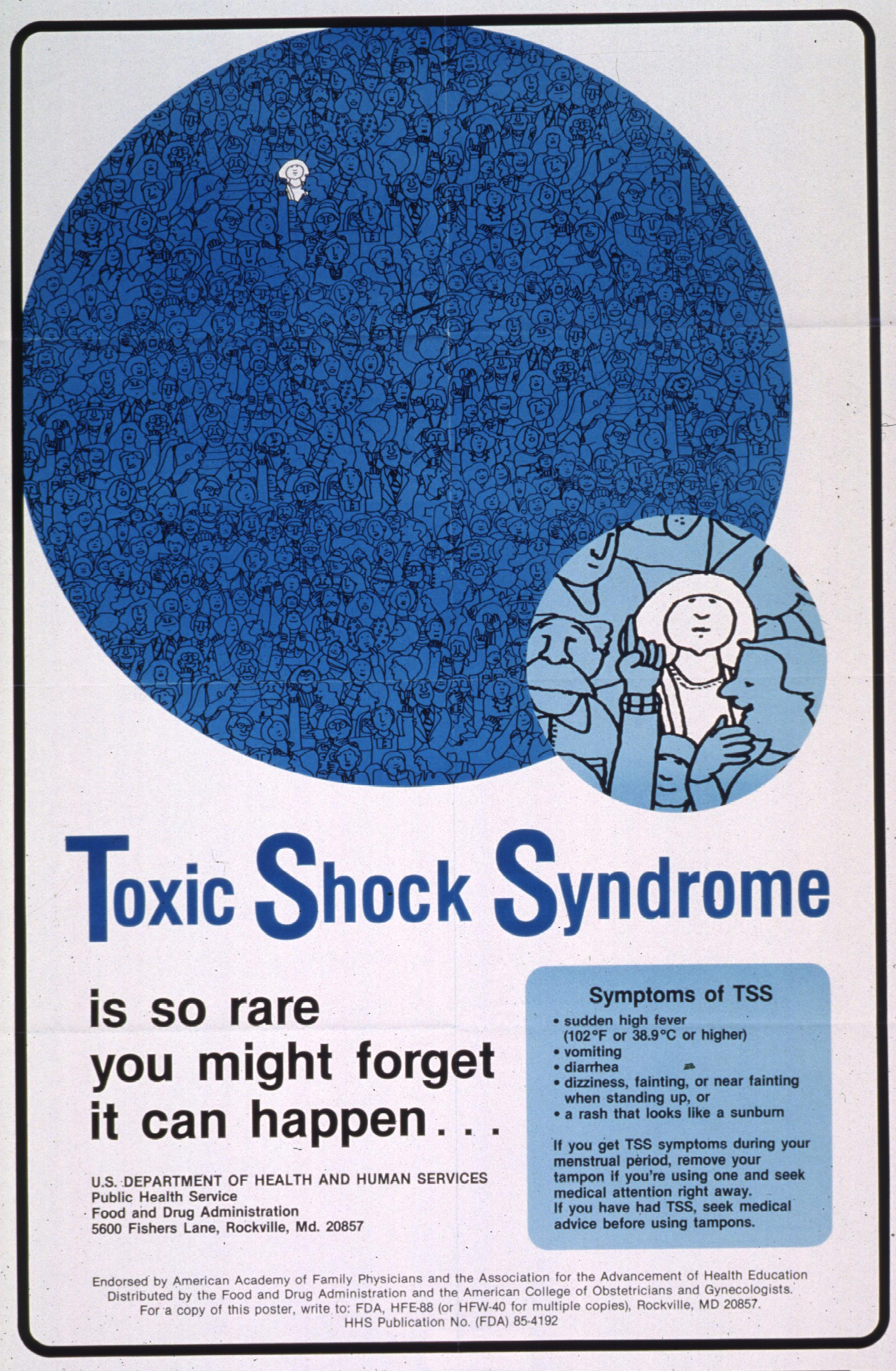 Contributor(s): United States. Food and Drug Administration. Publication: Rockville, Md. : Food and Drug Administration, [1985] Language(s): English Format: Still image Subject(s): Shock, Septic -- prevention & control Menstrual Hygiene Products Genre(s): Posters Abstract: White poster with teal and black lettering. Visual image dominates upper portion of poster. Image is a teal circle featuring a crowd of people. One woman is in white so she stands out in the crowd. Another circle, smaller and in a lighter shade of teal, provides a close up of the woman. Title below circles. Publisher information below title. List of disease symptoms near lower right corner. Endorsement and information about distribution and obtaining multiple copies at bottom of poster. Verso explains toxic shock and provides lesson plans for a health class on the disease. Extent: 1 photomechanical print (poster) : 82 x 54 cm. Technique: color NLM Unique ID: 101438566 NLM Image ID: A026020 Permanent Link